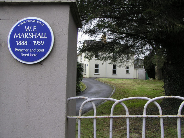 WF Marshall, Sixmilecross. The residence of the famed preacher and poet who lived here from 1888 to 1959